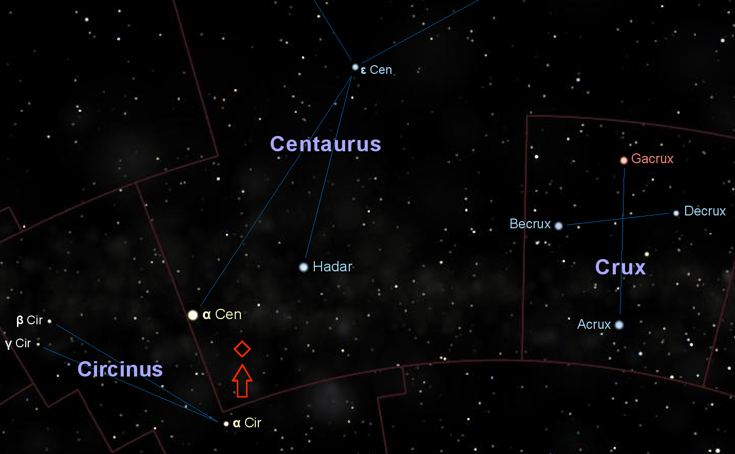 Position from Proxima Centauri in Centaurus